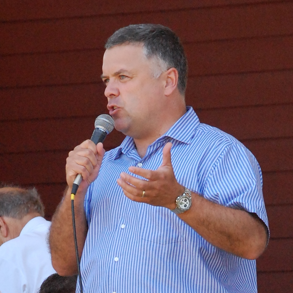 Brian Murphy speaking at Canada Day celebration in Riverview NB